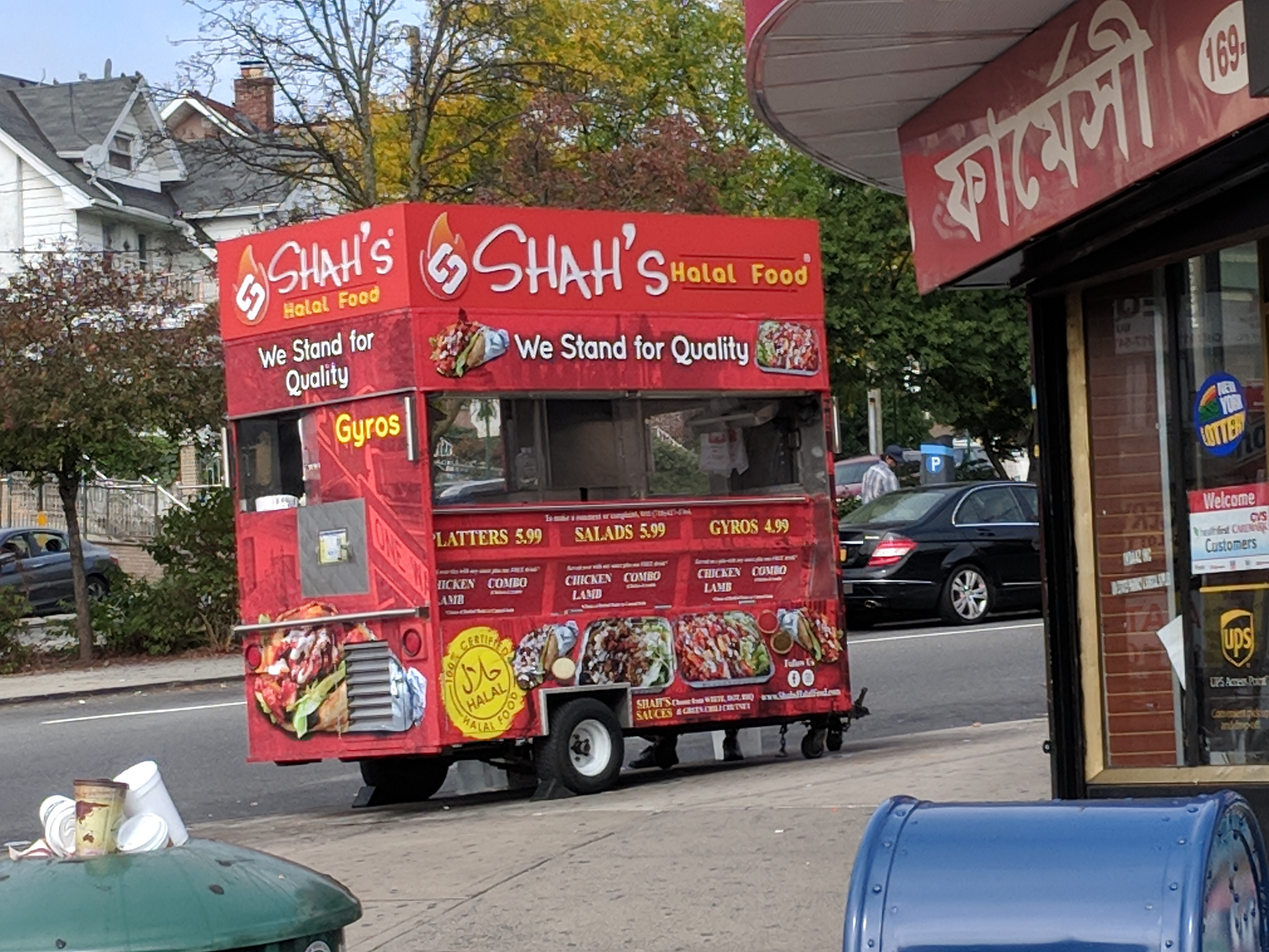 Establishments on hillside ave, Jamaica Queens Gyro cart. South asian, Bangladeshi, pakistani, Columbian and Mexican stores Sutphin blvd-180st